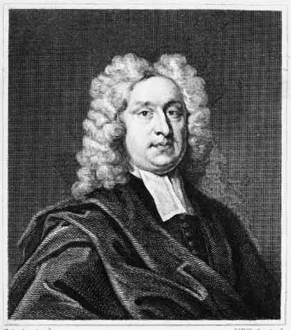 Depicted person: Edmund Calamy – English Nonconformist minister and historian